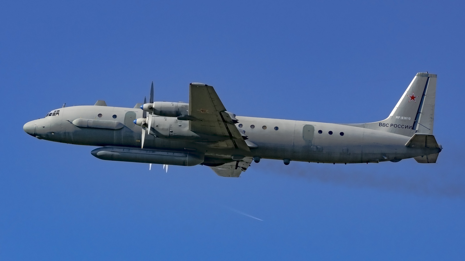 RF-93610 IL20M Russian Air Force UUMB